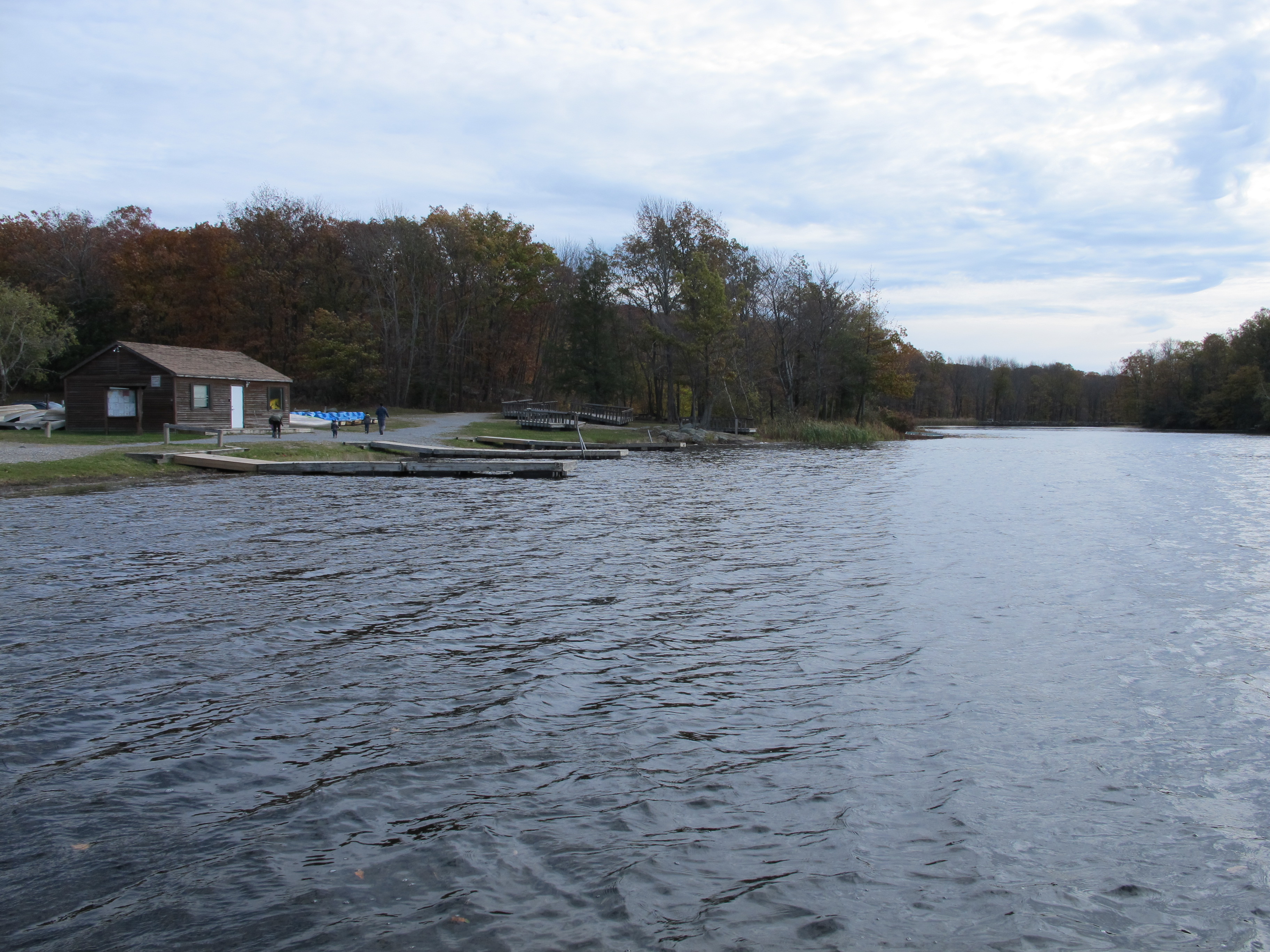 At the northside of Wawayanda Lake, close to the parking lot